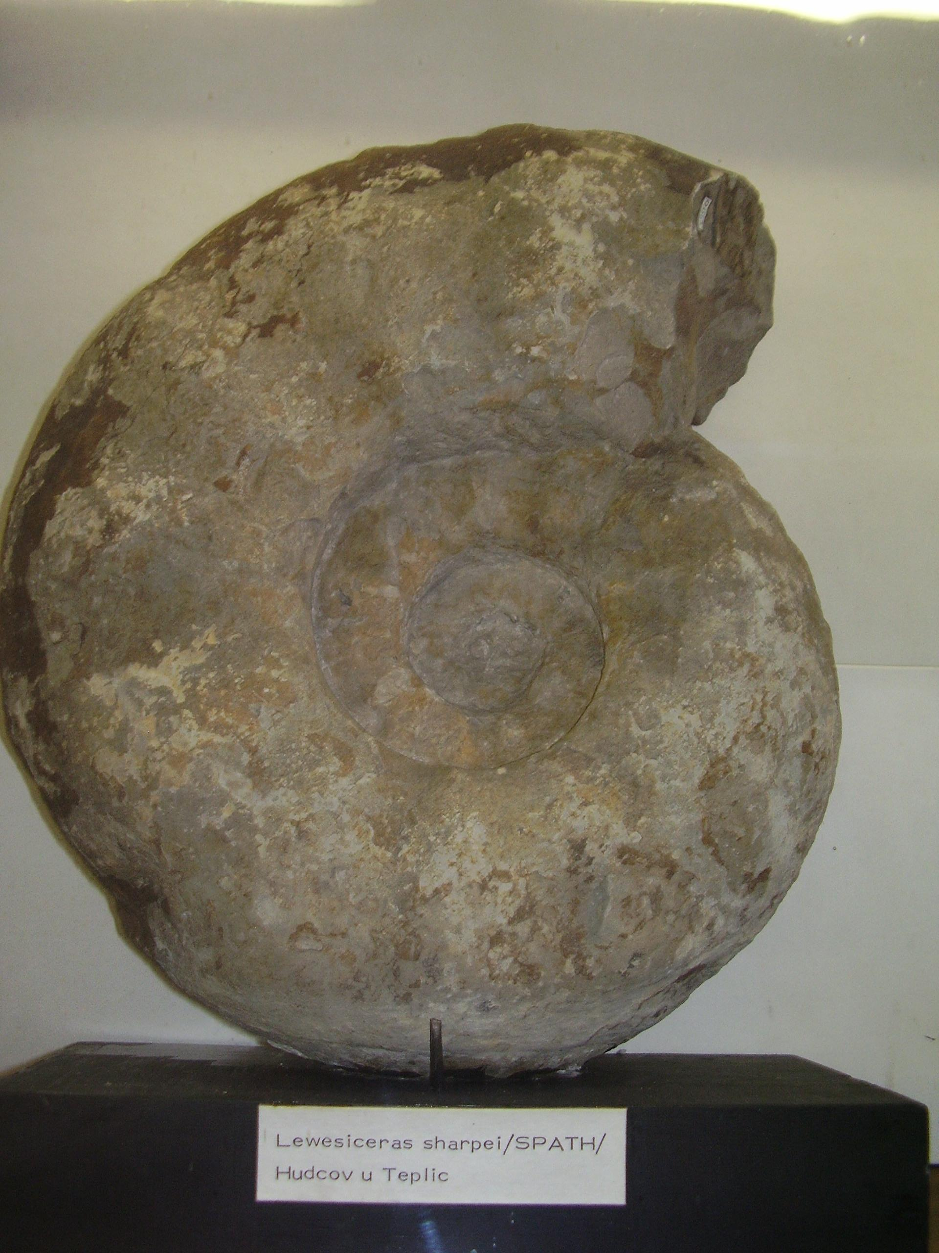 Fossil of ammonite genus Lewesiceras (Czech Republic), National Museum in Prague (2007).